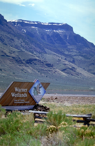 The Bureau of Land Management’s Warner Wetlands Interpretive Site near Plush, Oregon with Hart Mountain in the background